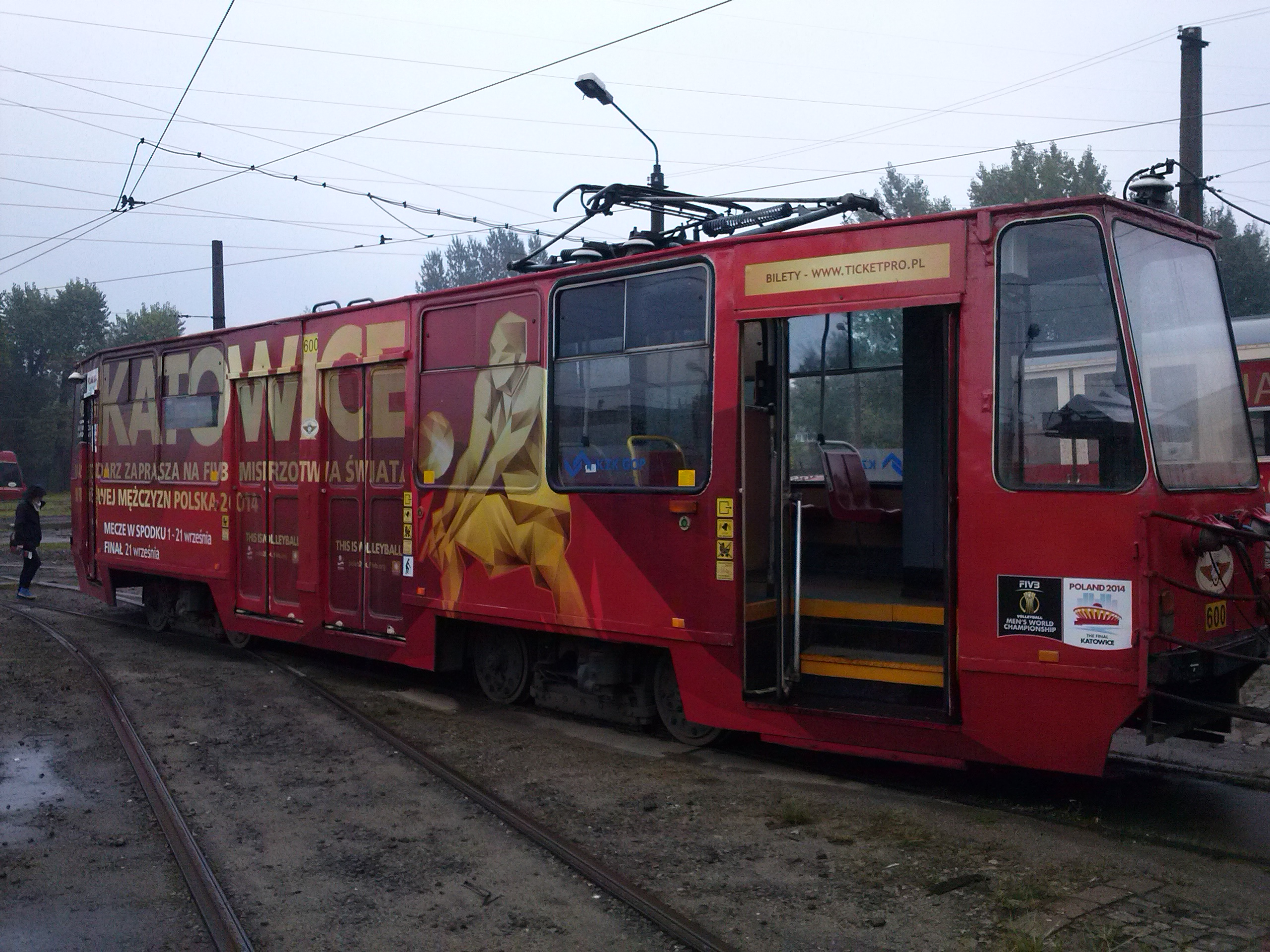 Tram Konstal 105Na with advertisement of World Championships in volleyball